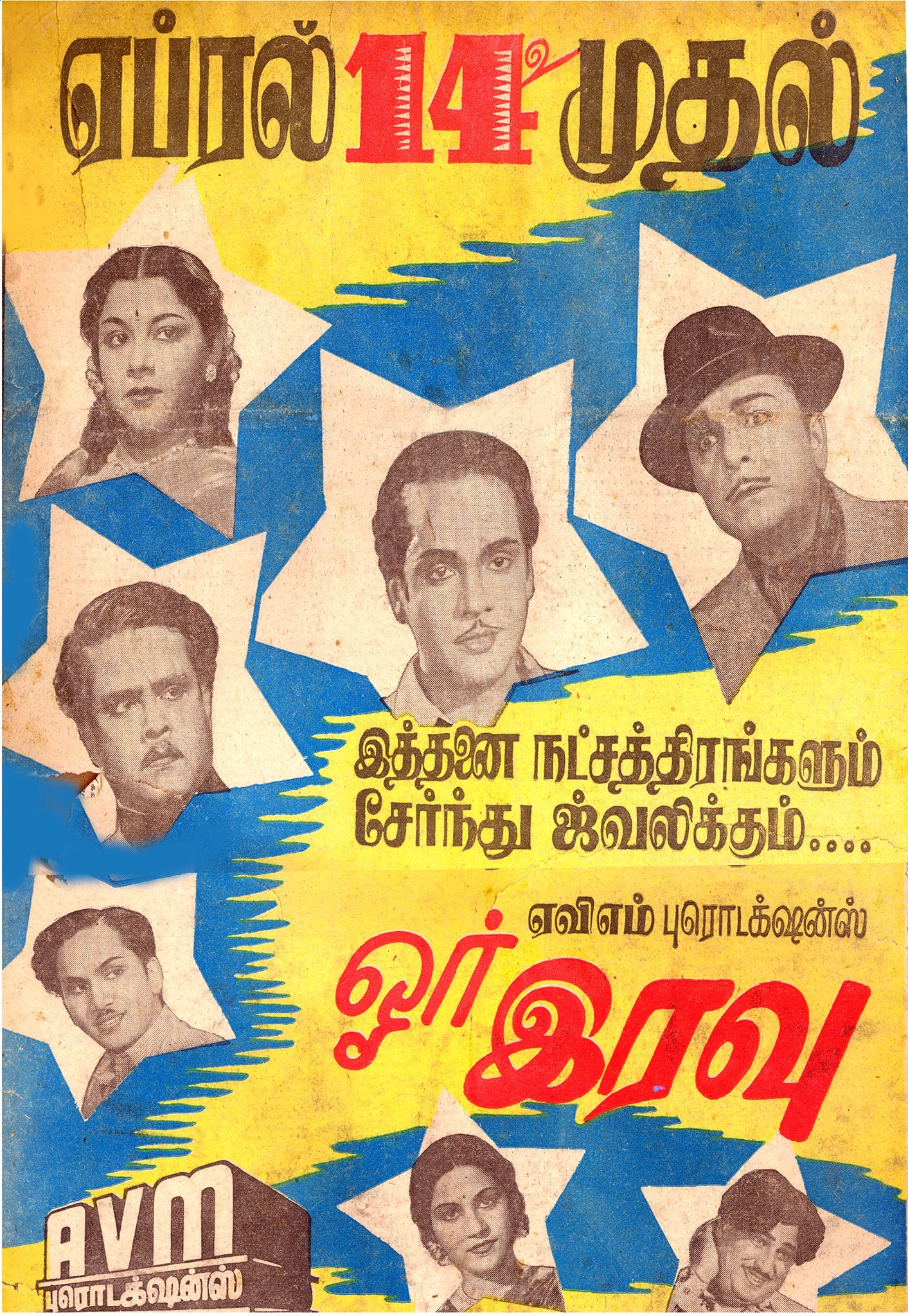 Theatrical release poster of the film Or Iravu, a 1951 Tamil film produced by AVM Productions.